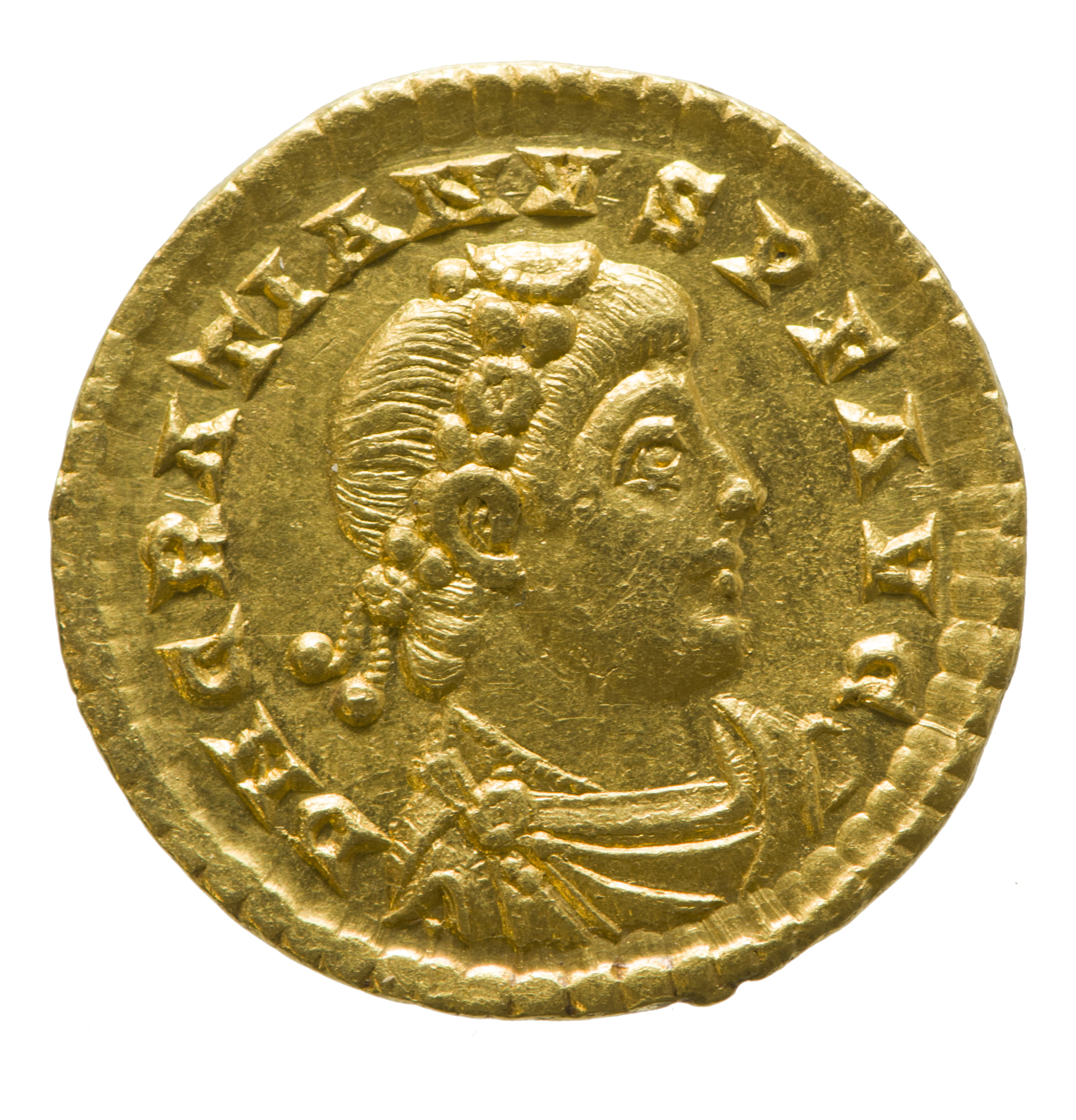 Obverse (front) of a solidus of Gratian Head right diademed, cuirassed, draped